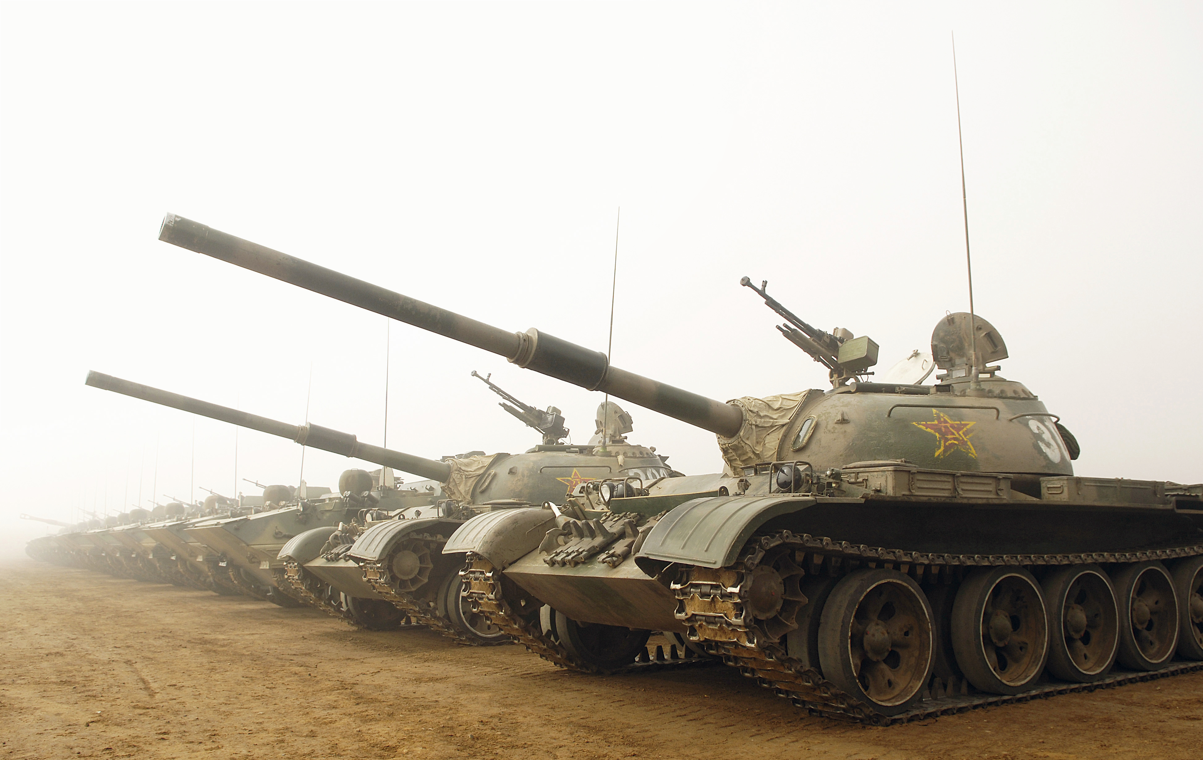 Chinese tanks in formation at Shenyang training base in China. ID: 070324-F-0193C-040